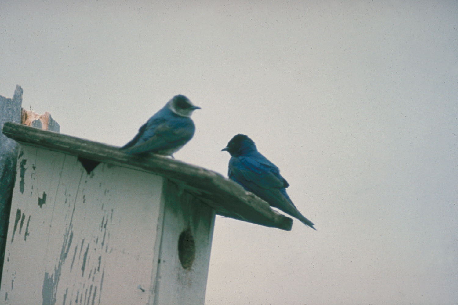 Purple Martins (Progne subis) on nest box. Fern Ridge Reservoir, Oregon, USA.